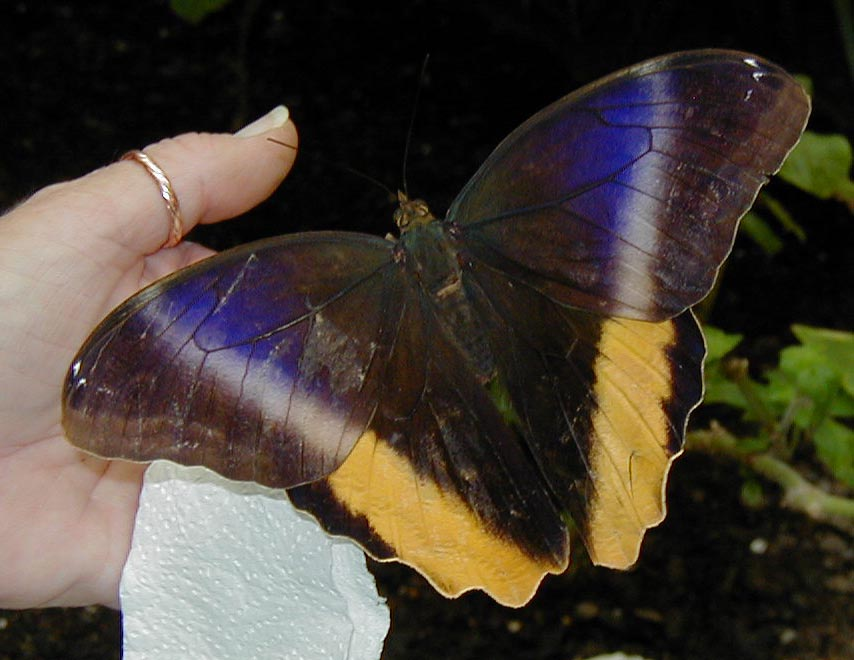 Queen Owl (Caligo atreus) has that morpho blue sheen at the Butterfly Palace in Branson, Missouri